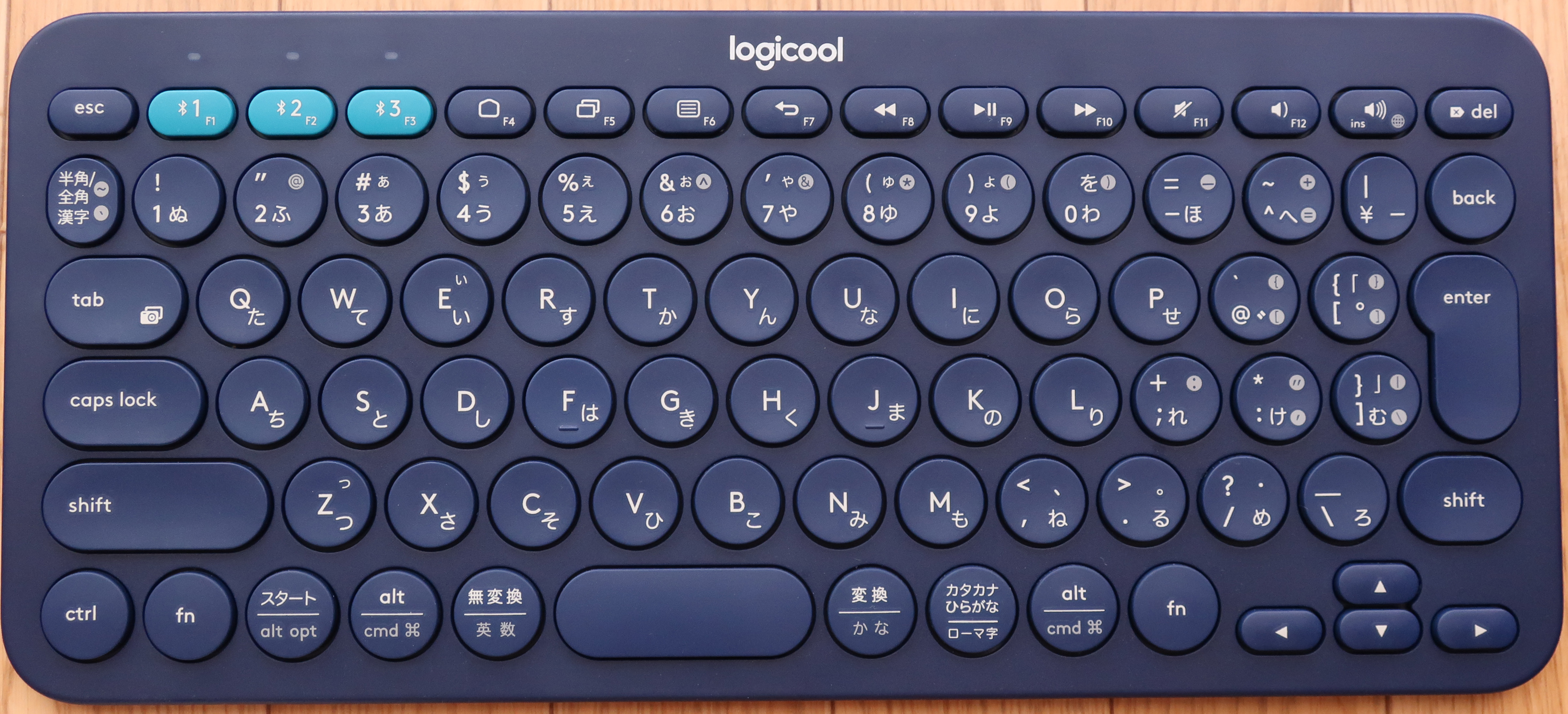 Japanese version of Logitech K380 Multi-Device keyboard.